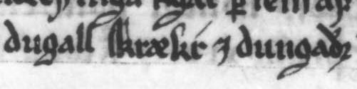 The names of Duggáll skrǫggr and Dungaðr, sons of Duggáll Sumarliðason, as they appear on folio 162v of AM 47 fol (Eirspennill). A transcription of this excerpt appears on page 555 of Jónsson, F, ed. (1916). Eirspennill: Am 47 Fol. Oslo: Julius Thømtes Boktrykkeri. This transcription reads: "Dugall skrækr ok Dungaðr".